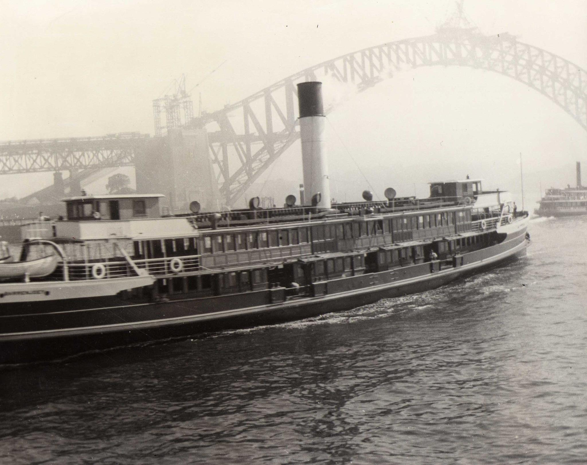 Sydney Ferry BARRENJOEY approaches Circular Quay with newly enclosed upper deck circa 1930